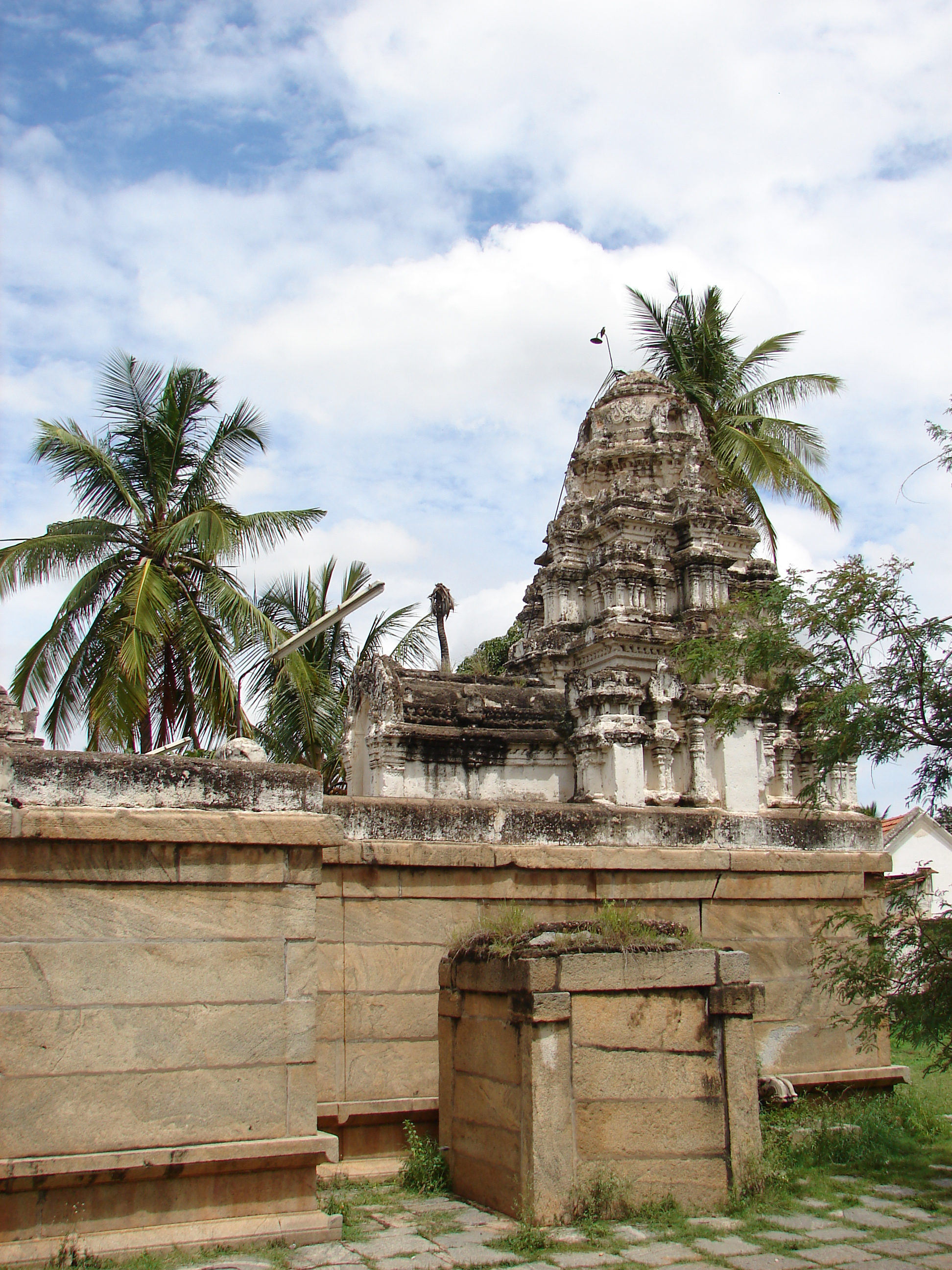 This photograph was taken by me at the Gangadeshvara temple (or Gangadeshwara) in Turvekere, Tumkur district, Karnataka state, India.